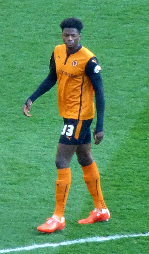 Iorfa playing for Wolverhampton Wanderers in 2015.